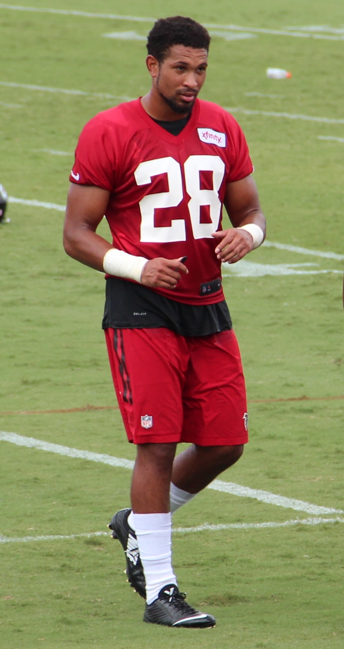 Akeem King in 2015